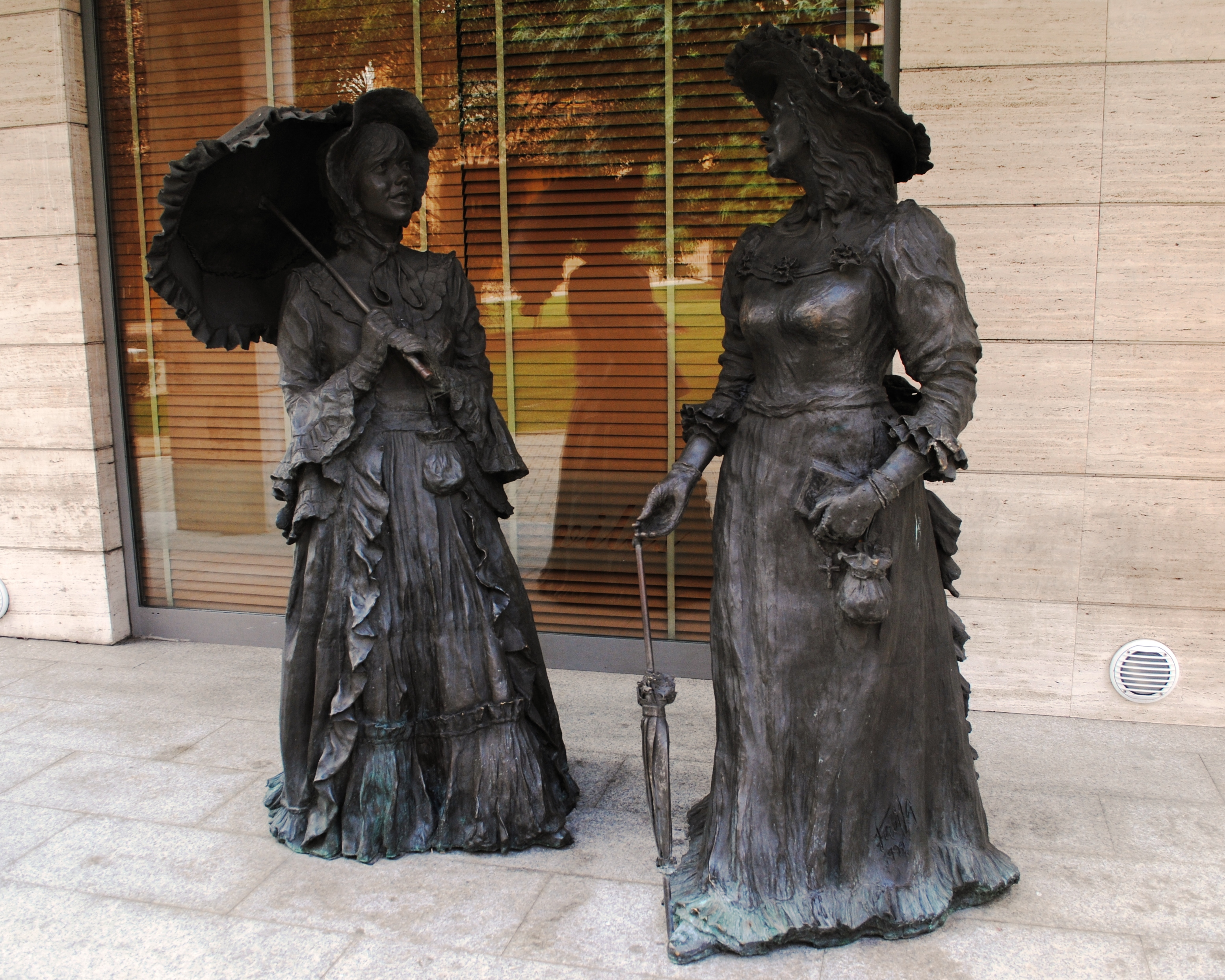 Marta y María, Amado González Hevia 'Favila'.